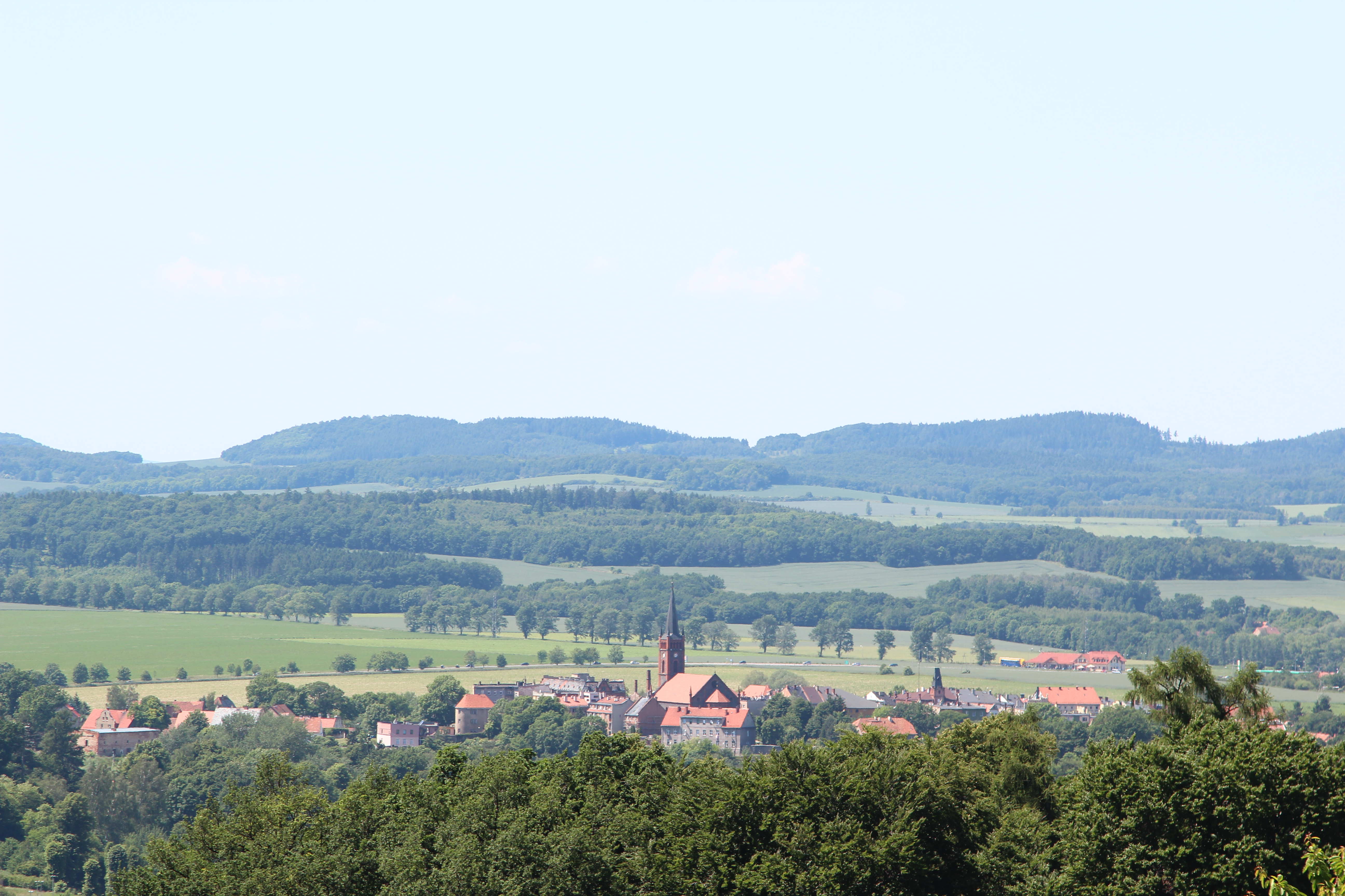 Niemcza general view from Arboretum in Wojsławice